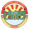 Coat of arms of the former Municipality of Bistrica, Macedonia.